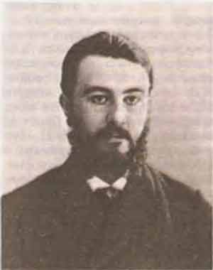 Platon Krasnov is the elder brother of General Pyotr Nikolaevich Krasnov, Ataman of the Don Cossack Host, and husband of Ekaterina Andreyevna Beketova, aunt of poet Alexander Blok.